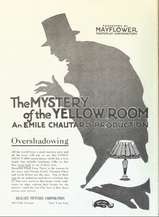 Advertisement for The Mystery of the Yellow Room (1919), a film directed by Émile Chautard.